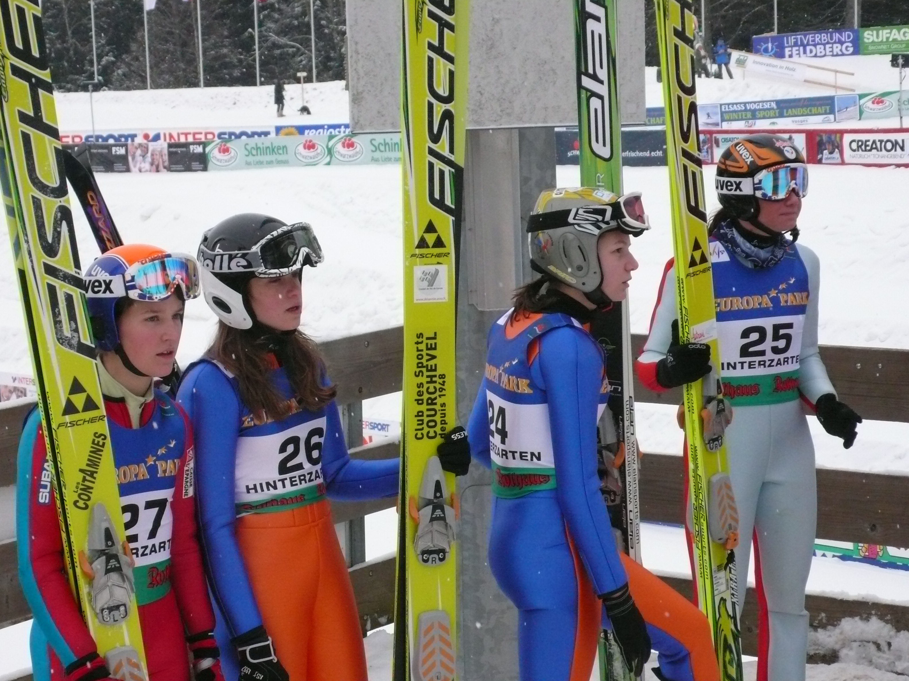 Coline Mattel, Léa Lemare, Julia Clair et Caroline Espiau : the french team of ski jumping 2010, during the World Junior Championship of Nordic Skiing in Hinterzarten on the 2010-01-28